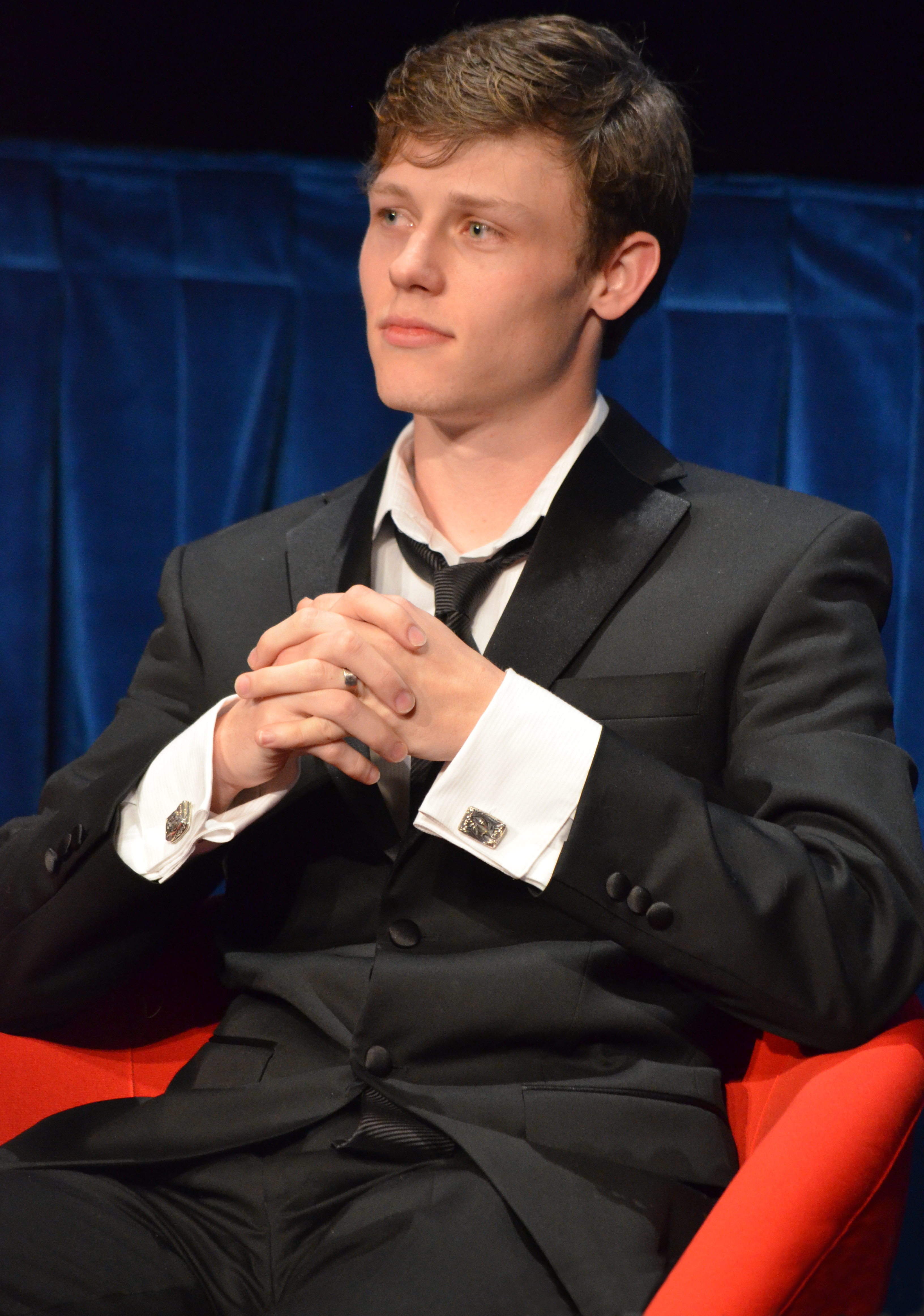 Nick Eversman at Missing Paley Center in Los Angeles (2012)